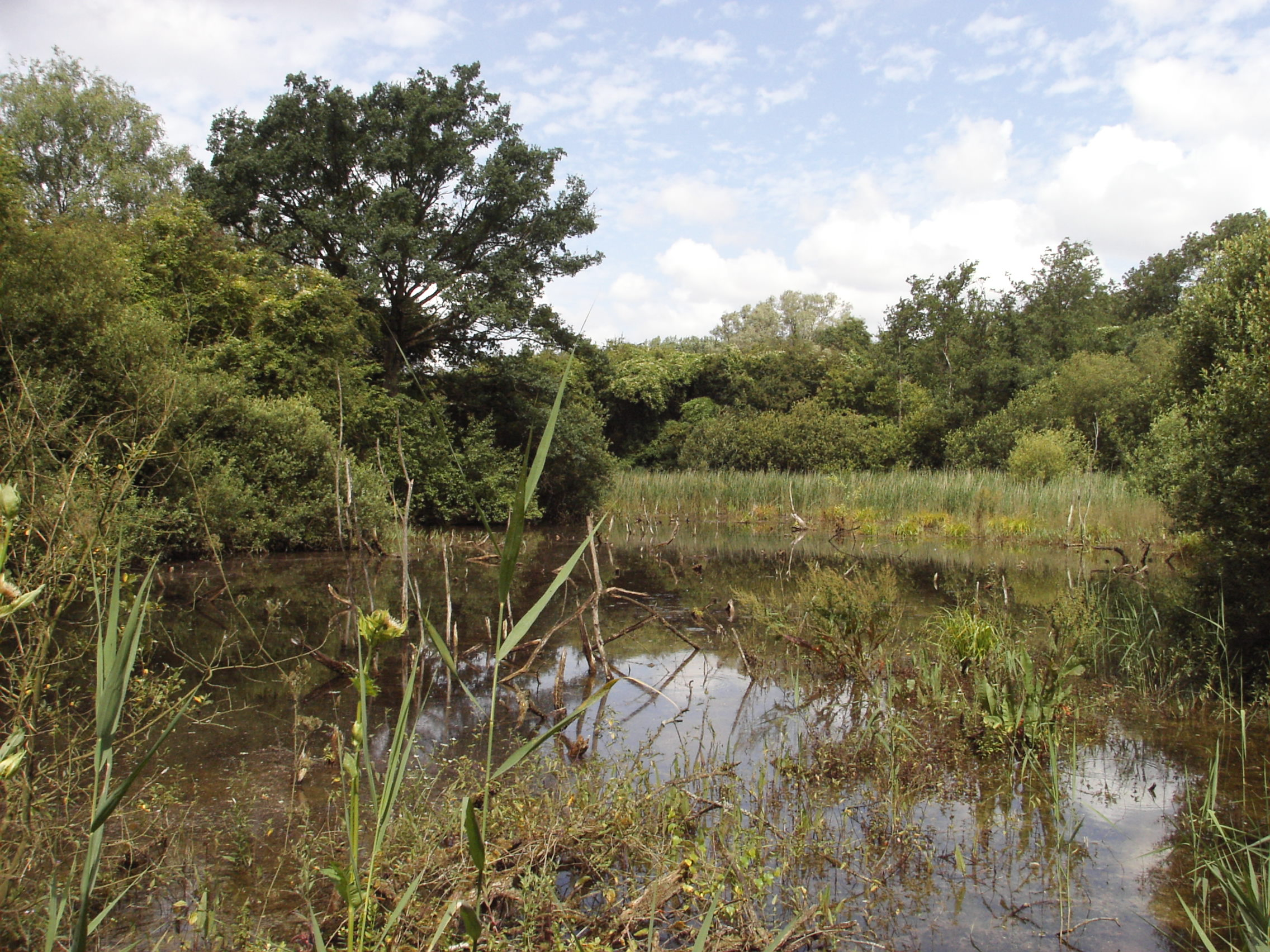 Cambrin's Wetland (Regional Nature Reserve, Pas de Calais, France)